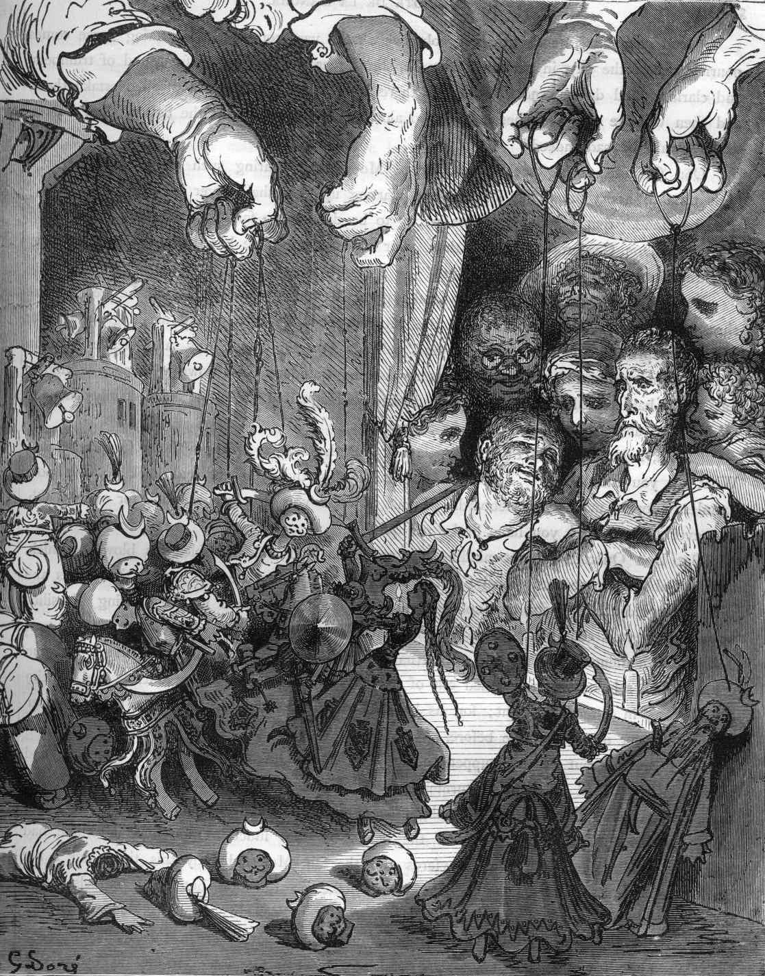 Description: Illustration from Chapter XXVI of Don Quixote Artist: Gustave Doré (1832 – 1883) Source: Scan of the 1893 edition published in London by Cassell and Co. Source: Project Gutenberg